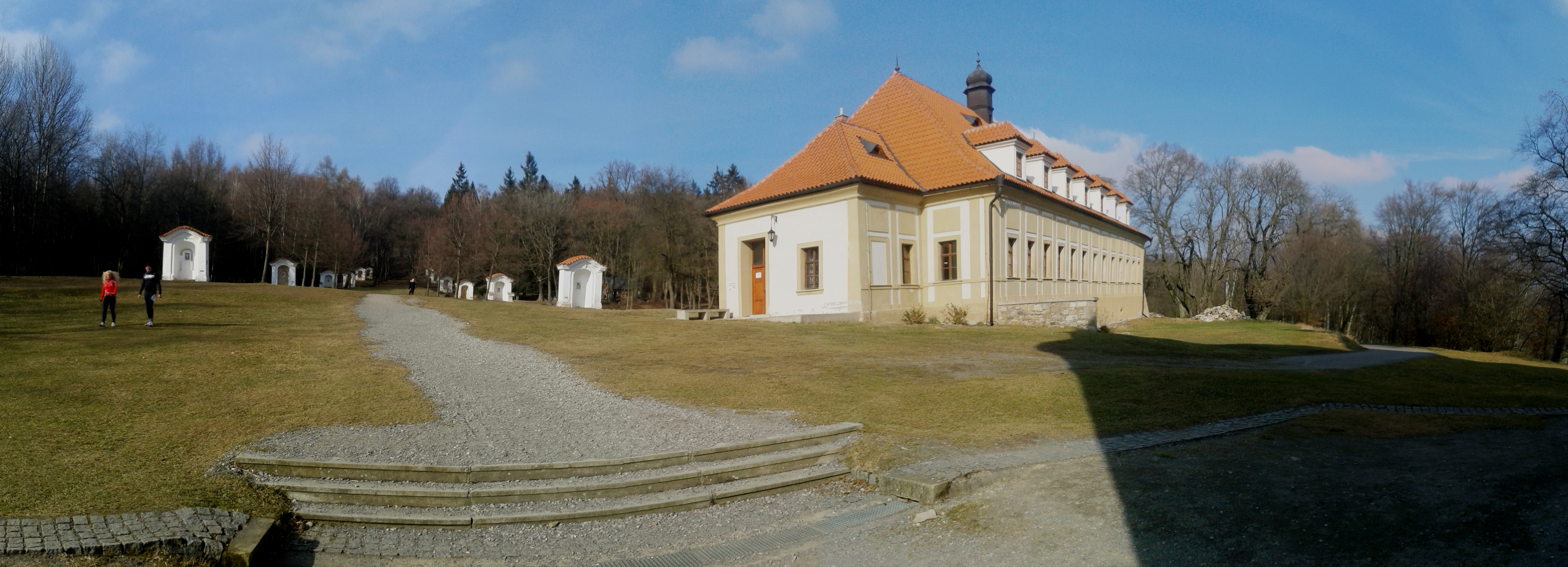 Panoramic view from the church of St. Mary Magdalene, in the right renewed monastery, in the left the Stations of the Cross, Mníšek pod Brdy, Czech Republic